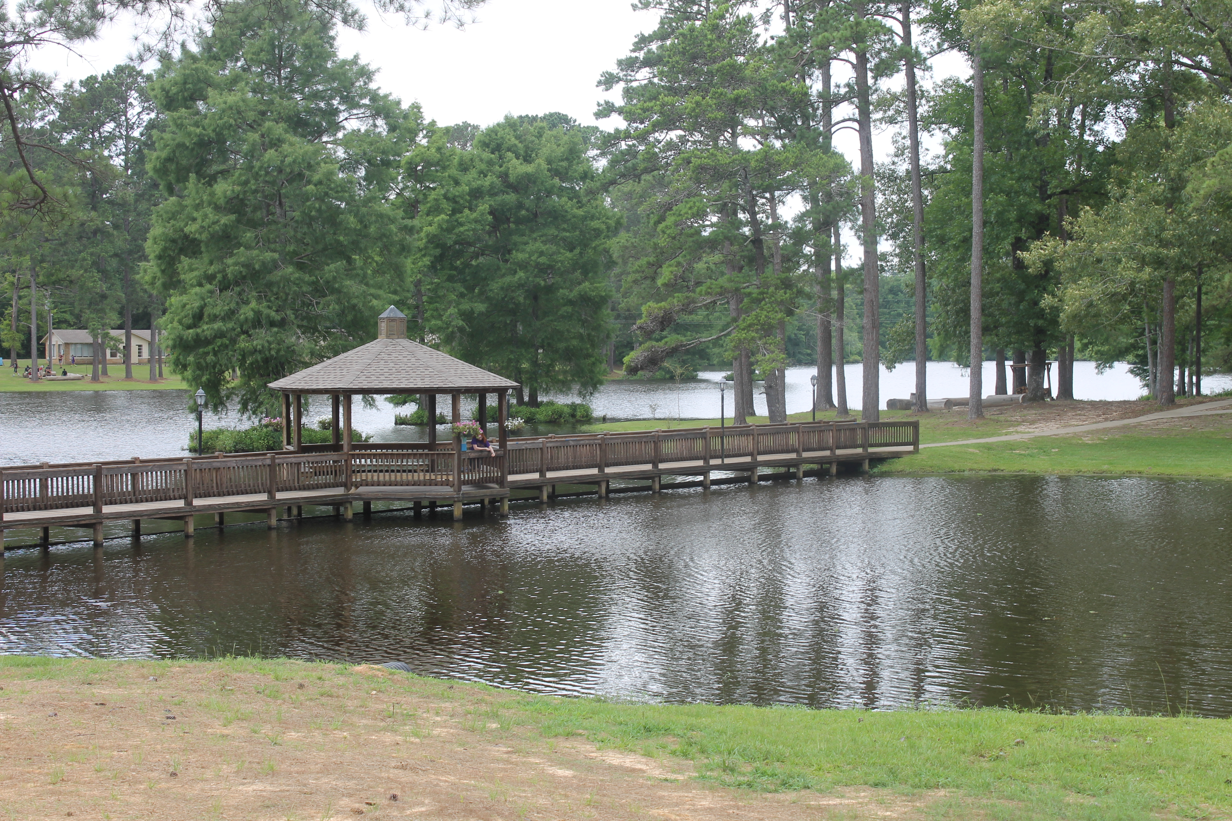 Lake inside Southland Camp at Ringgold, LA